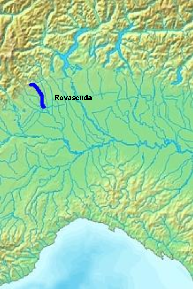 Rovasenda creek location (BI, VC - Italy)